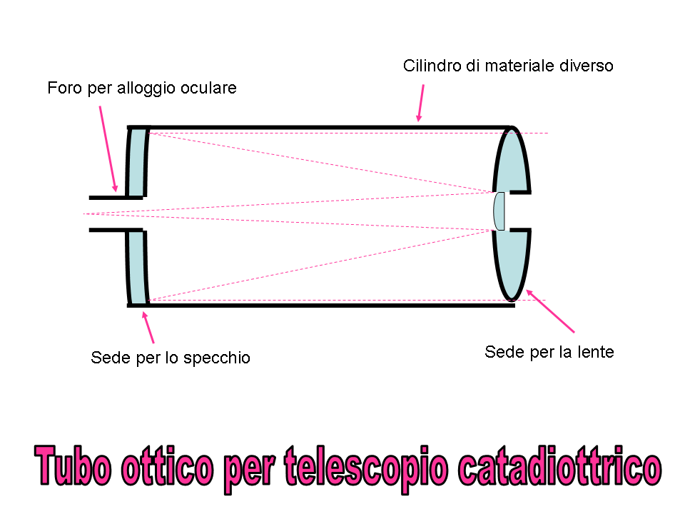 Optical tube of catadioptric telescope